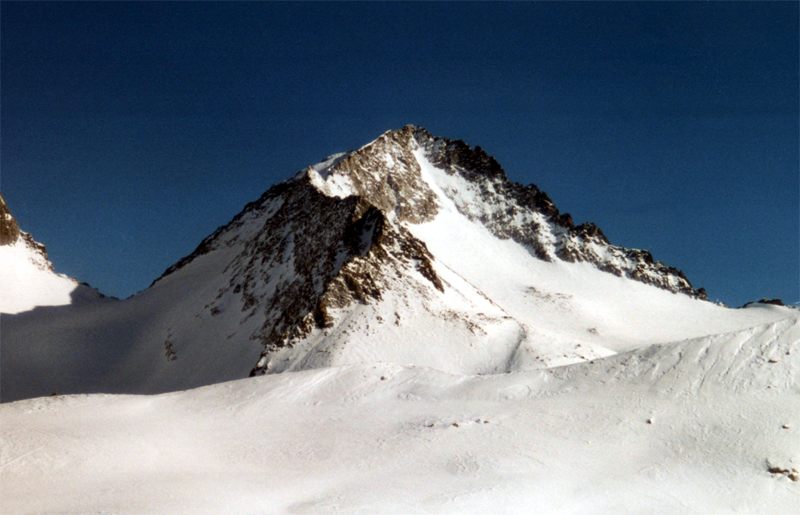 Wildgall (3272m, Rieserferner group) in the Alps in Italia, near to border of Austria, as seen from west